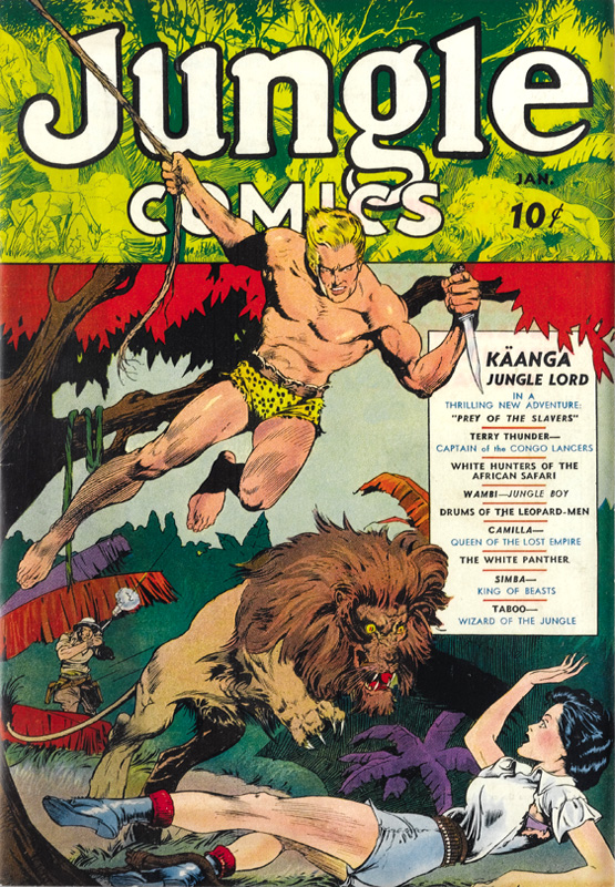 Jungle Comics #1 (1940)